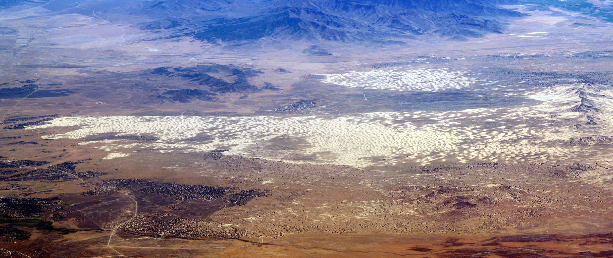 A view of the Little Sahara Recreational Area in central Utah from 20,000 feet. View northeast, the south terminus (southwest flank) of the Sheeprock Mountains, and the south terminus of the West Tintic Mountains (to right). The small Tintic Valley—east of the West Tintic Mountains—extends southwest into the northeast of the Sevier Desert.)